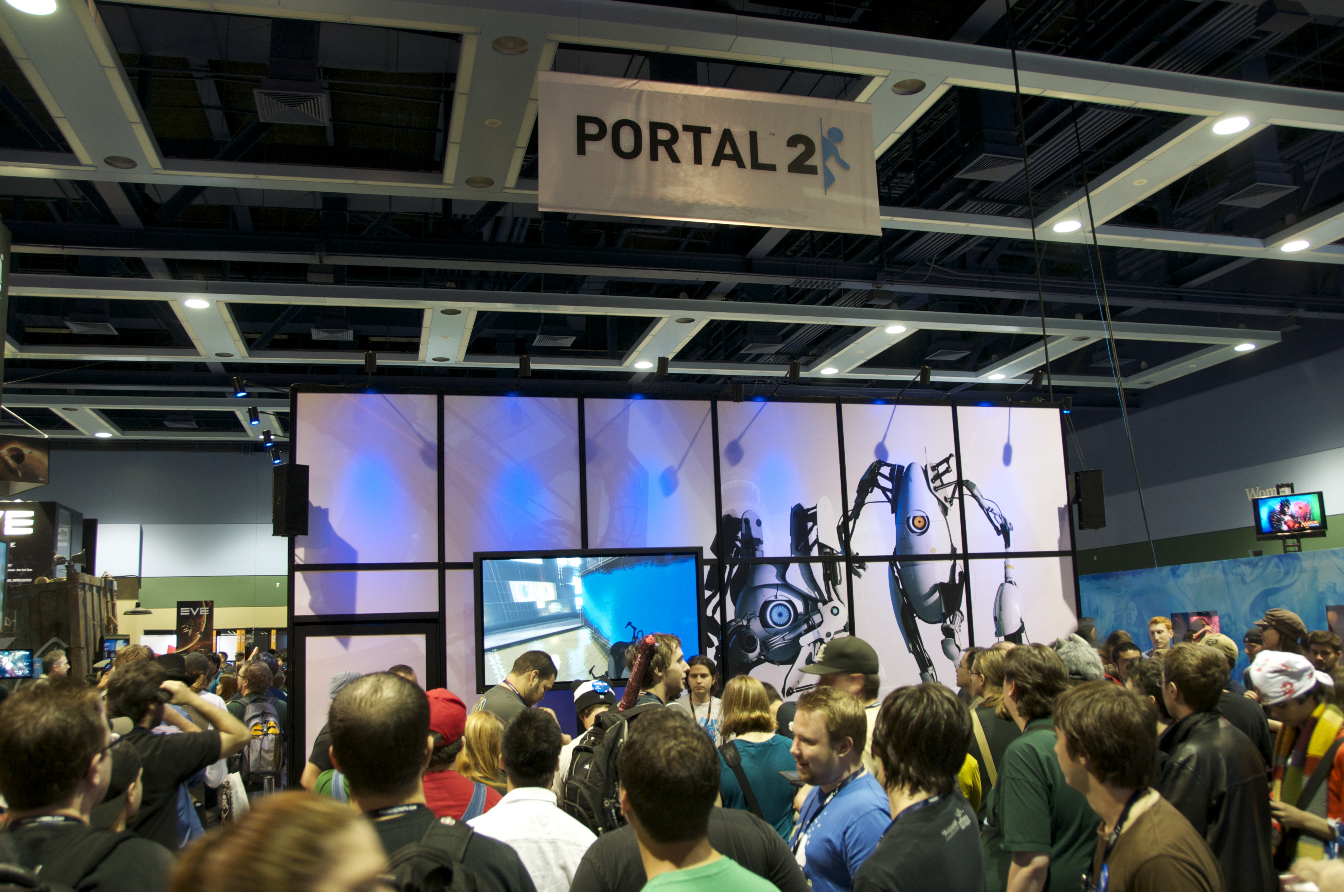 I love Portal, and look forward to 2, but this was a waste of booth space.